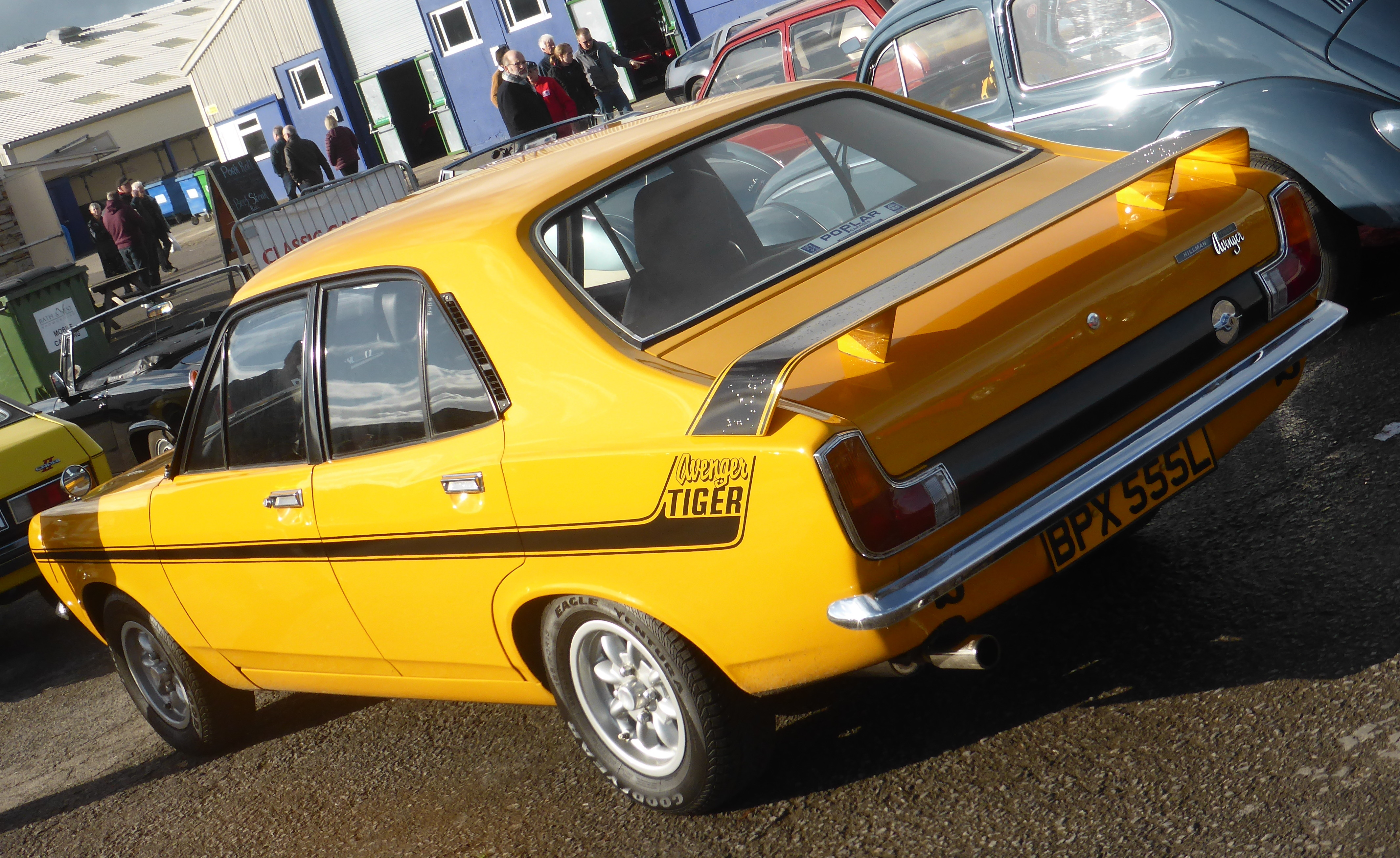 Footman James Classic Vehicle Restoration Show, Bath & West Showground, near Shepton Mallet